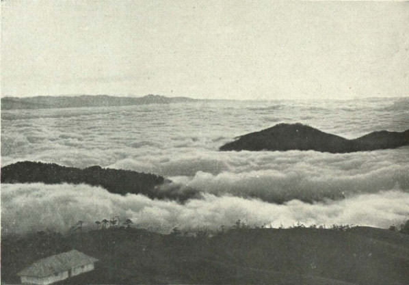 Cloud effect from Philut, Darjeeling